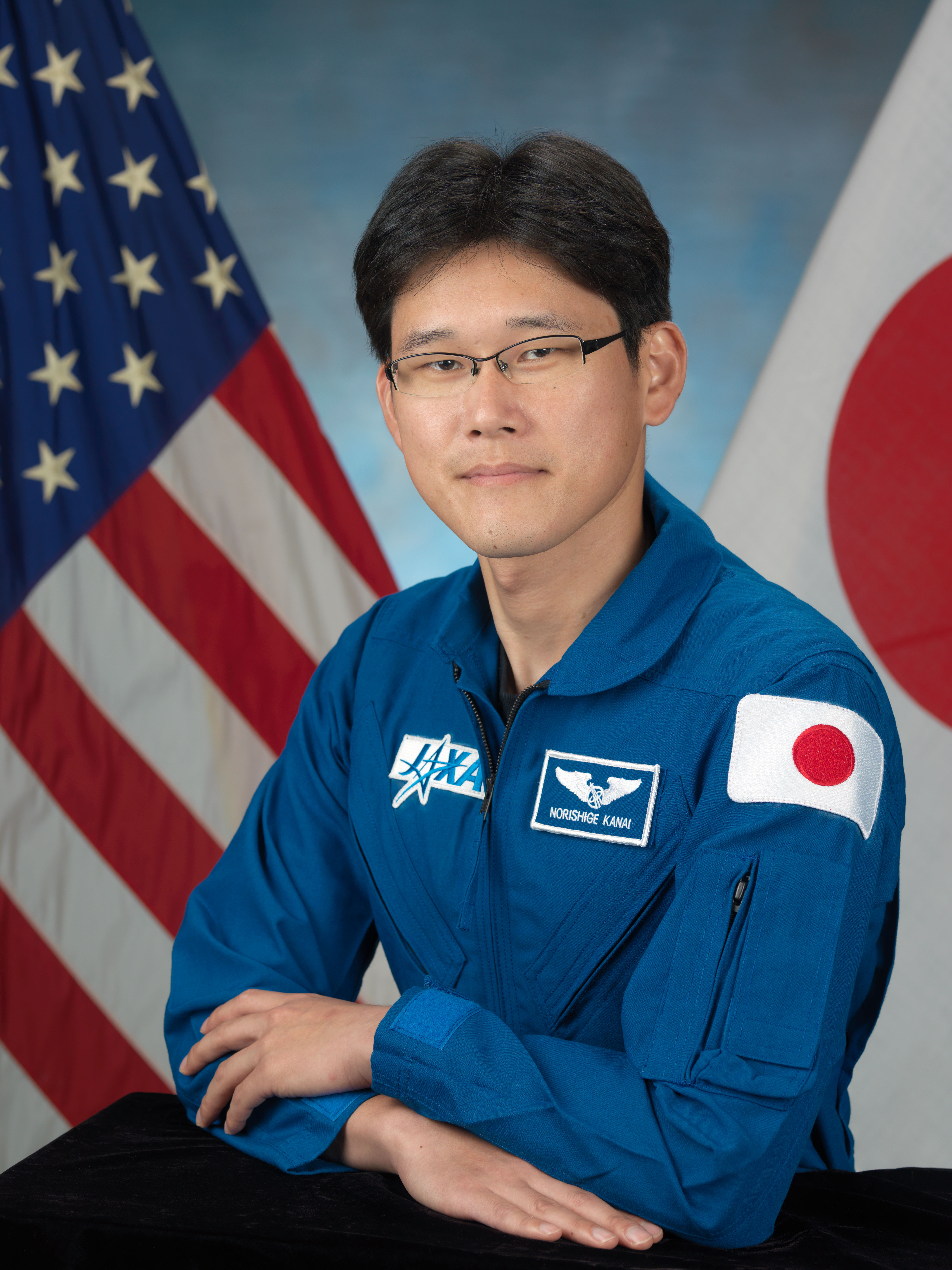 Astronaut Candidate Norishige Kanai's Official NASA Photo